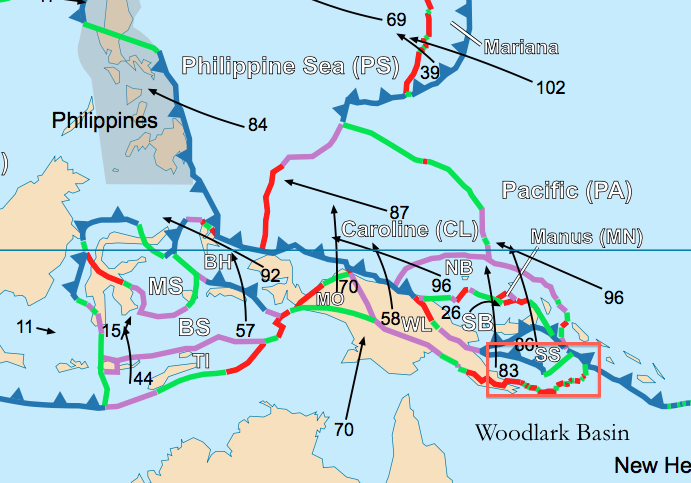 the woodlark basin is boxed in on a map of plate tectonics in the region